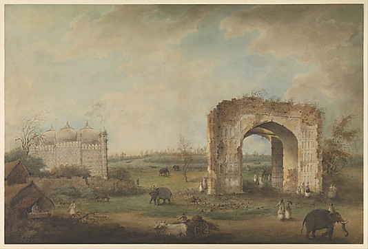 The entrance to the Moti Jheel Palace and Lake